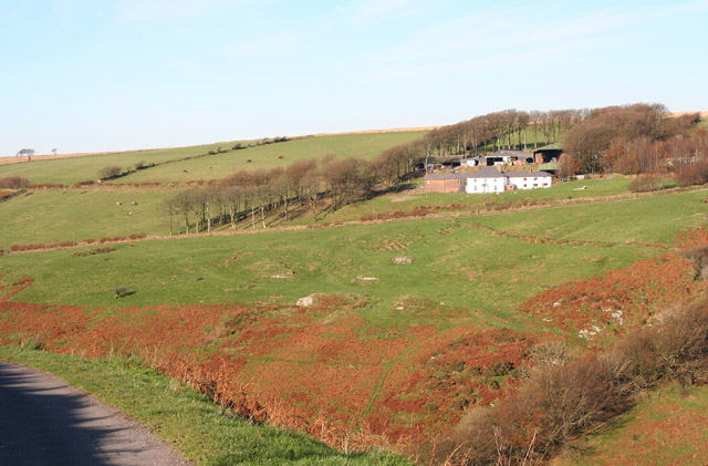 Exmoor: Warren Farm. Looking across the Exe valley from the access lane at the top of Three Combe Hill. Warren Farm was one of the estates established by John Knight and his son Frederic in the mid nineteenth century. It now offers bed and breakfast